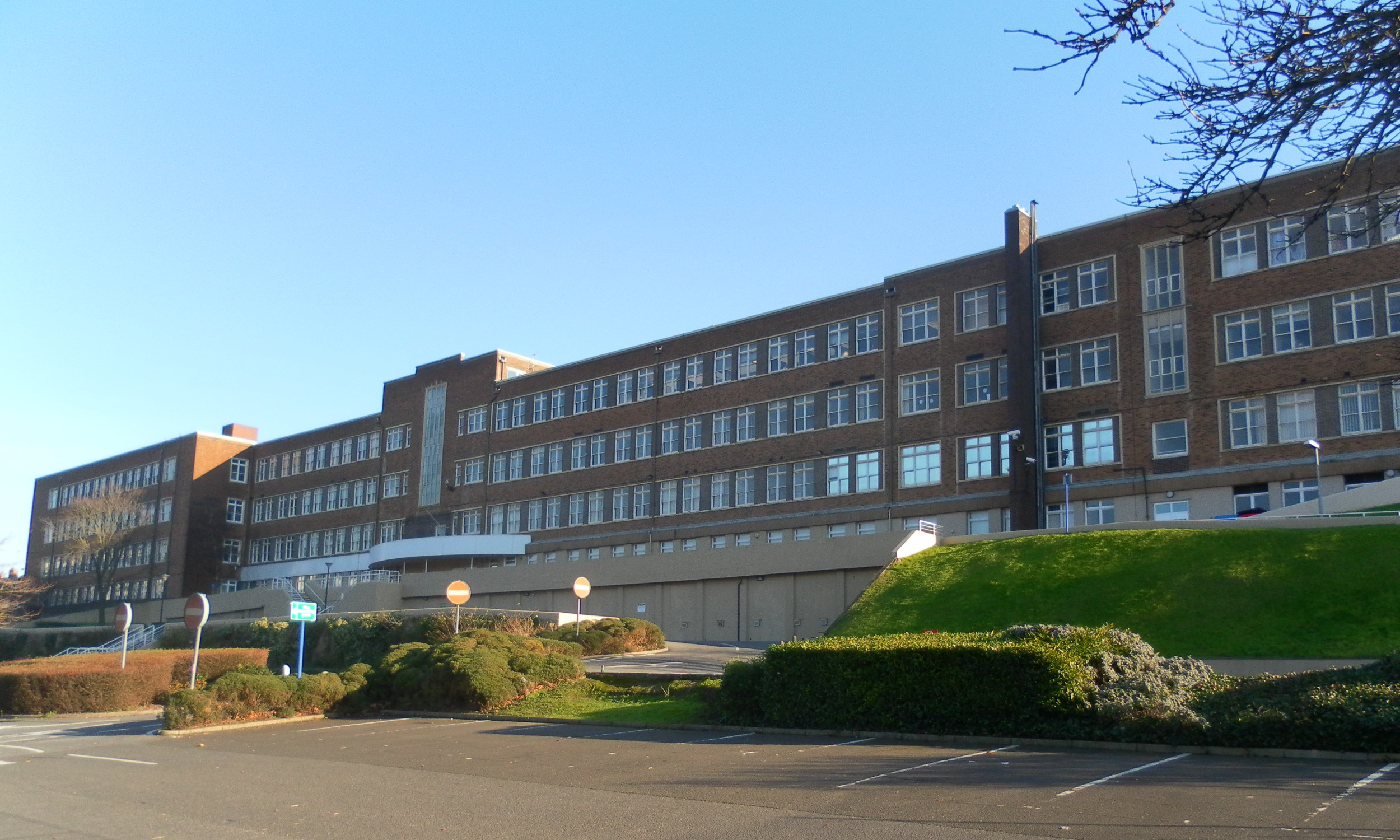 Mithras House, Lewes Road, Brighton, City of Brighton and Hove, England. Built in 1939 as an administrative and design office for the Allen West electrical engineering company. Sold in 1968 during a period of retrenchment; bought by a property company in 1972; later sold to East Sussex County Council, who passed it on to Brighton Polytechnic (now the University of Brighton). It is now one of the University's main buildings.